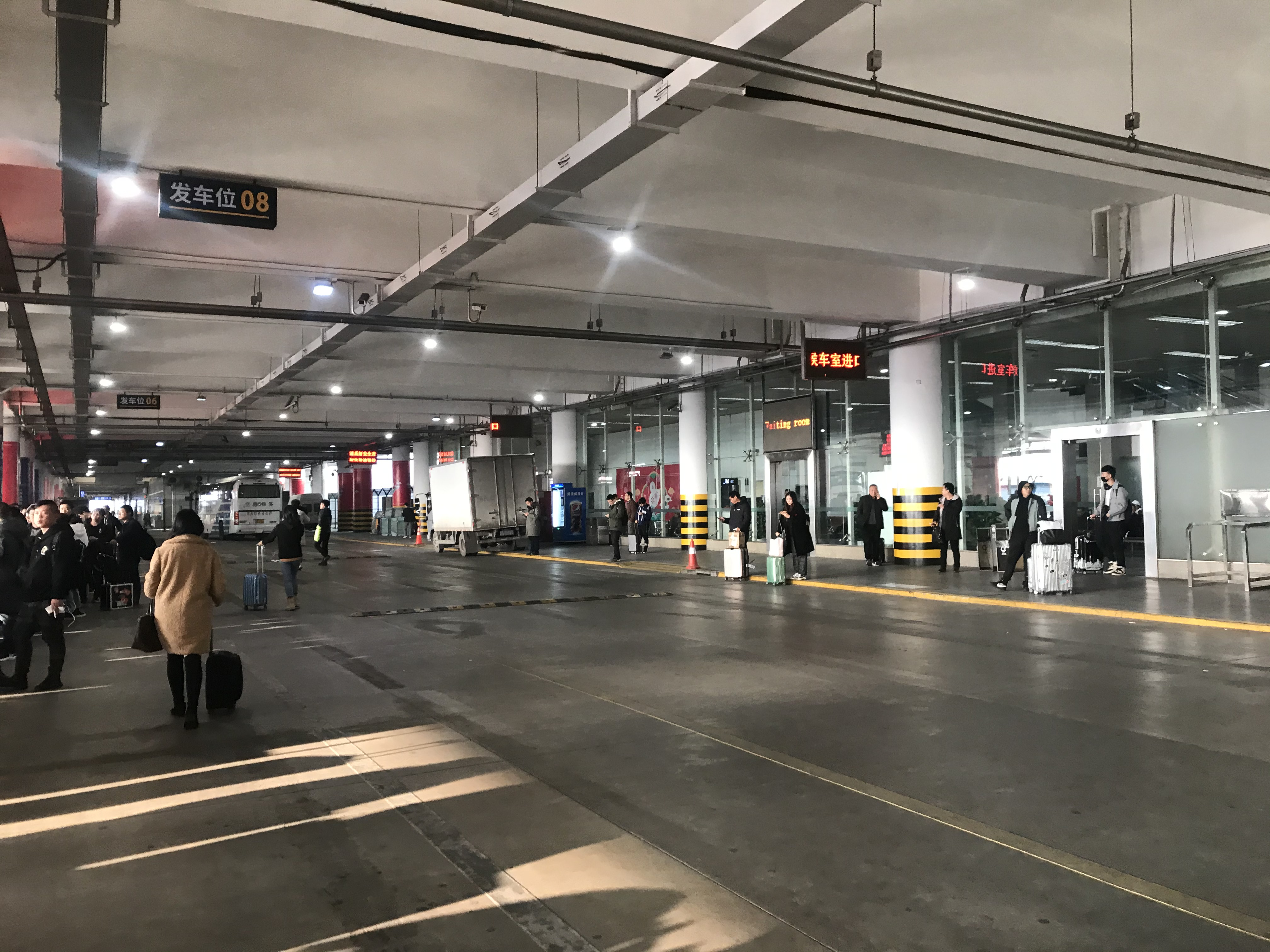 Unfortunately HGH still does not have any mass rail transit link to the city center